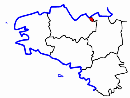 Description: Map for localisazion of cantons of Bretagne region in France Source: made by Hervé Tigier in april 2005 from another large map (published in 1990)